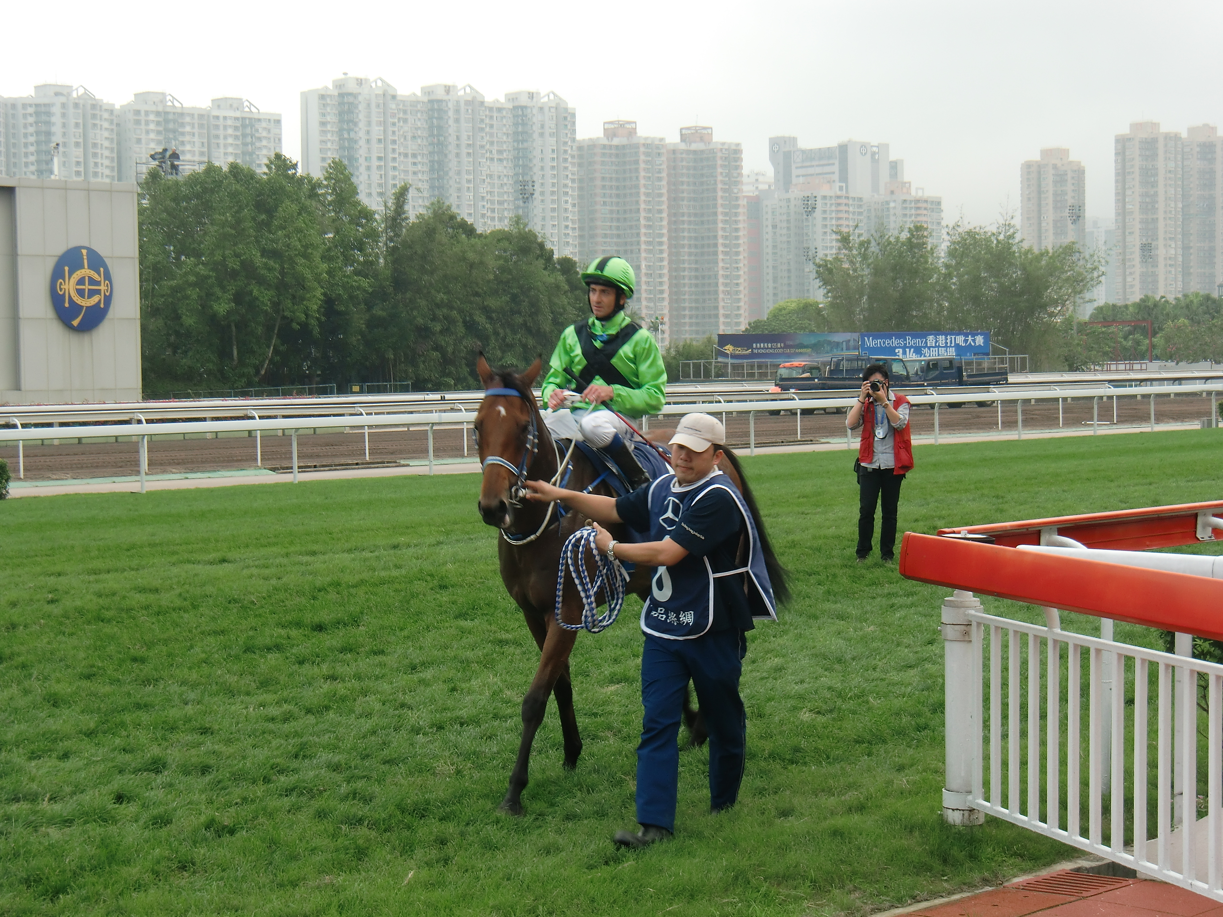 Super Satin after won Hong Kong Derby